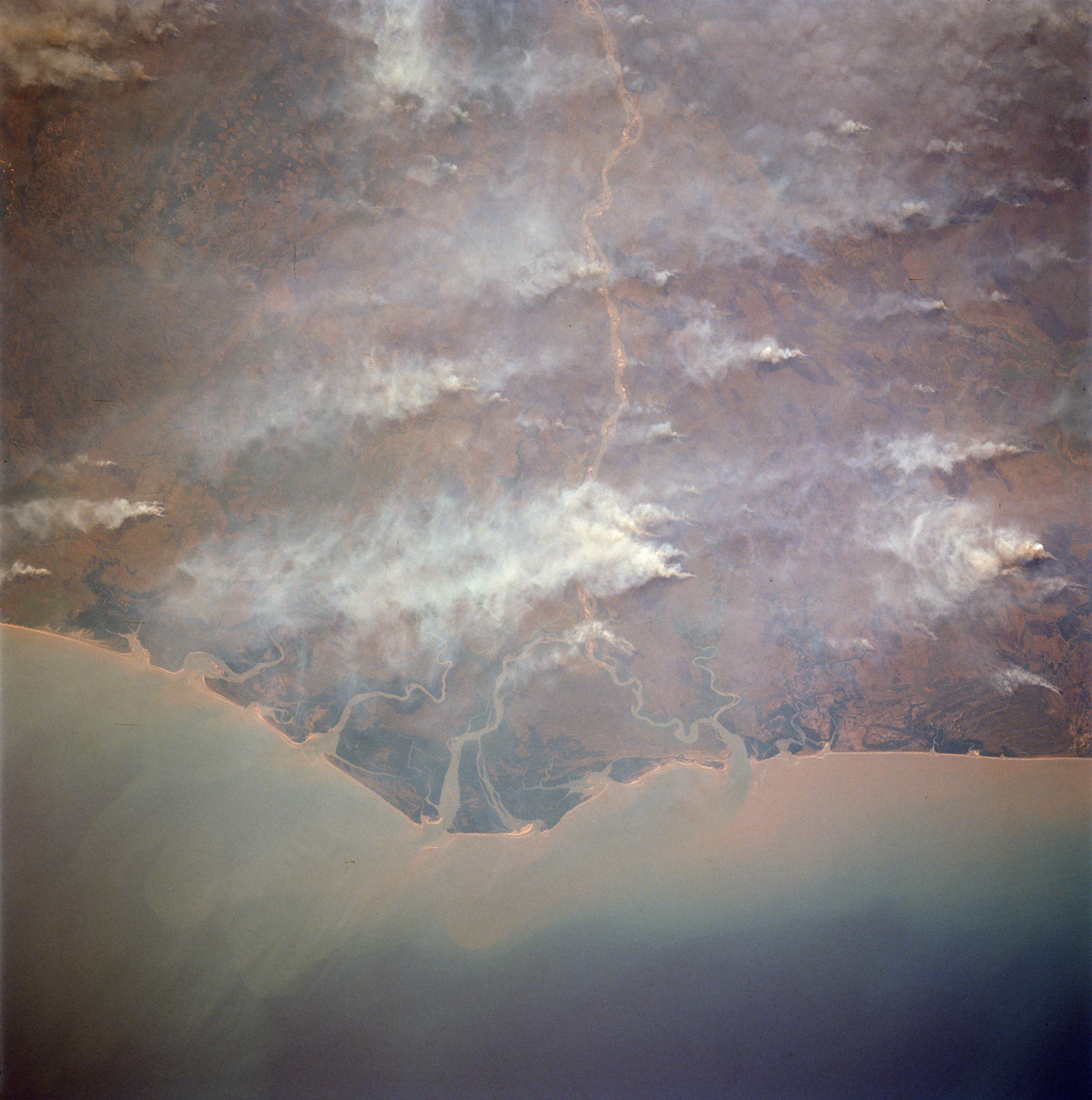 The delta of the Zambezi River photographed from the International Space Station